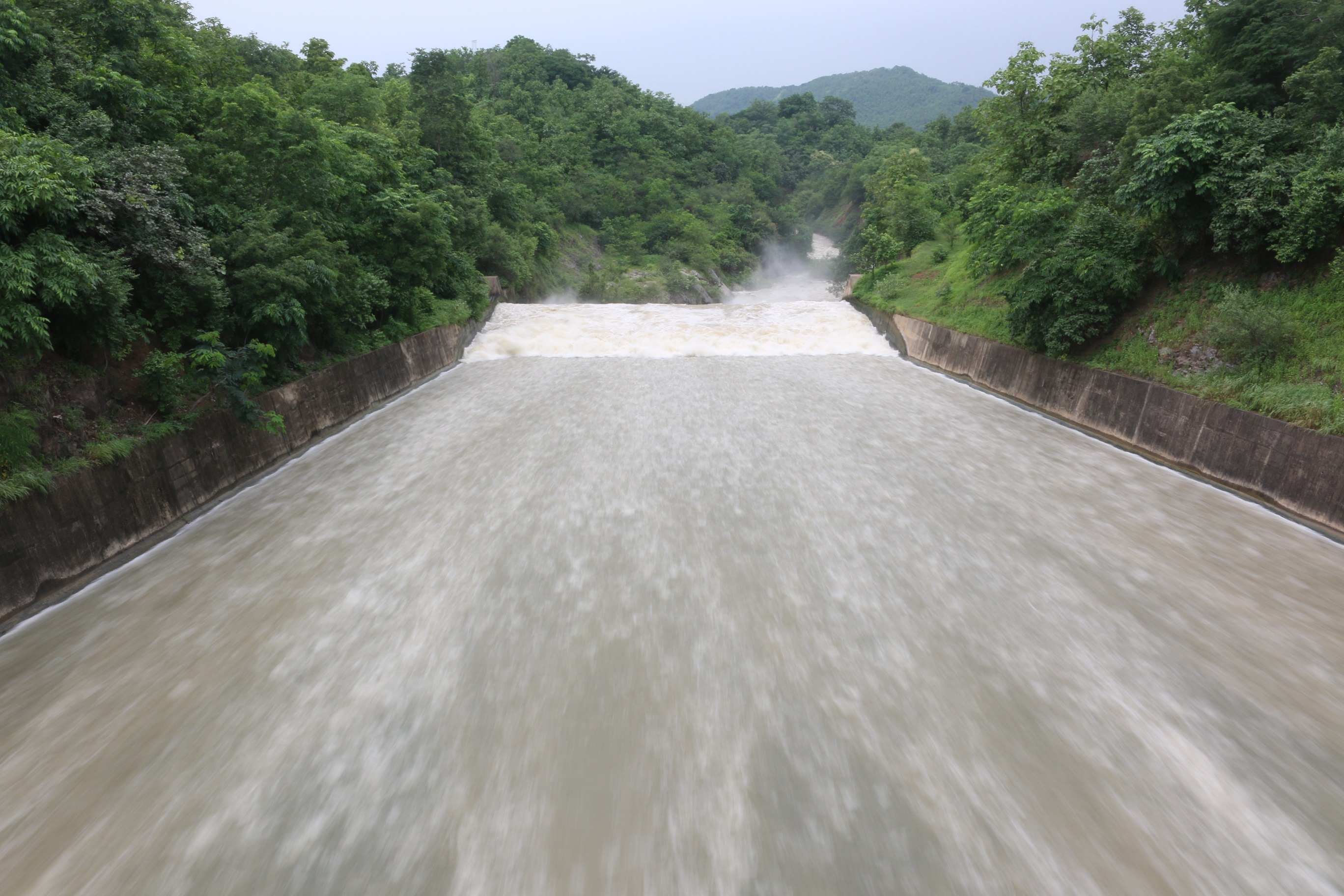 One of the outlet streams of Sardar Sarovar Dam